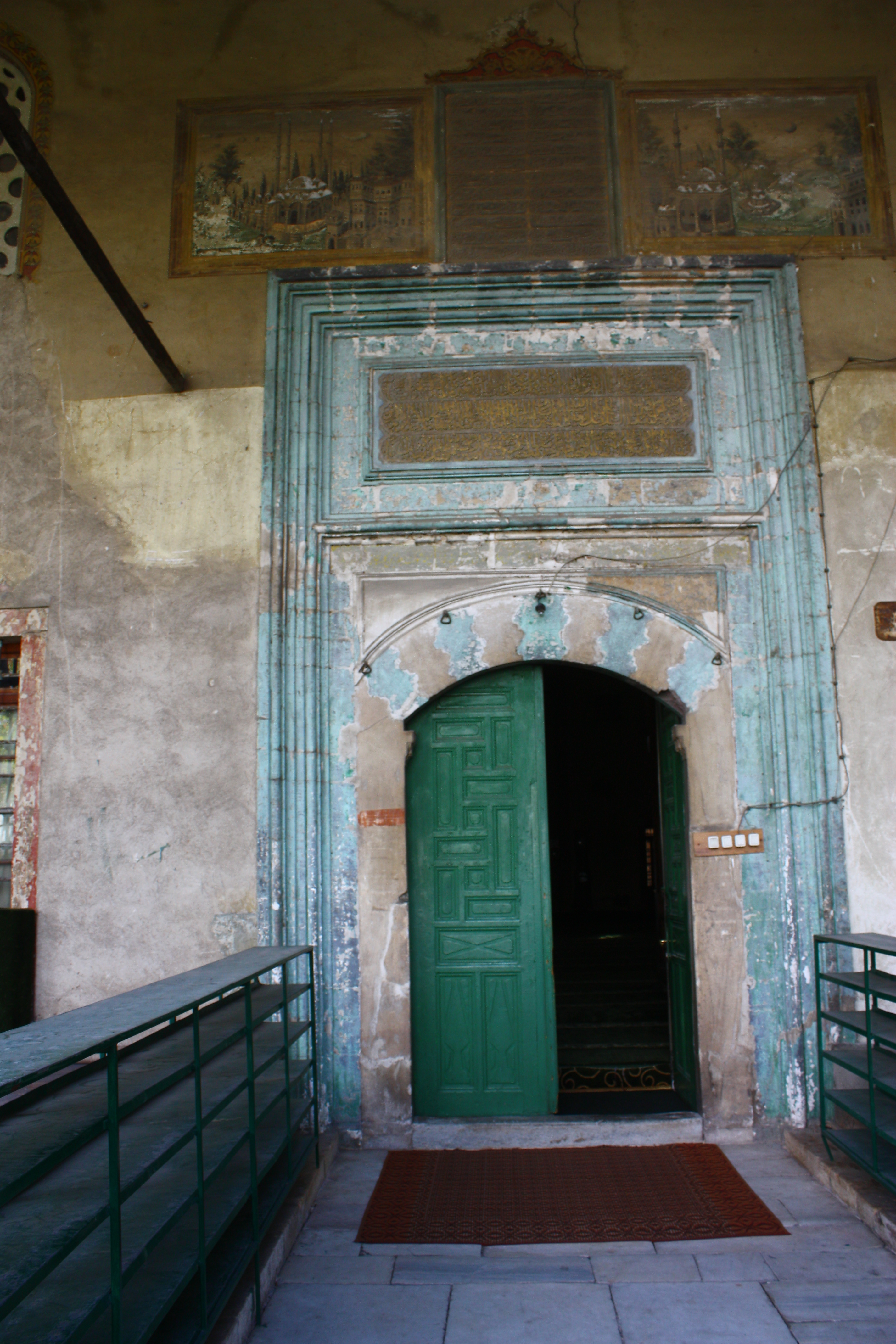 Clock Tower - Sultan Murat Mosque Macedonia Ова е фотографија на споменик на културата во Македонија со типски код: А02This is a a photo of a cultural monument in North Macedonia with type id: А02